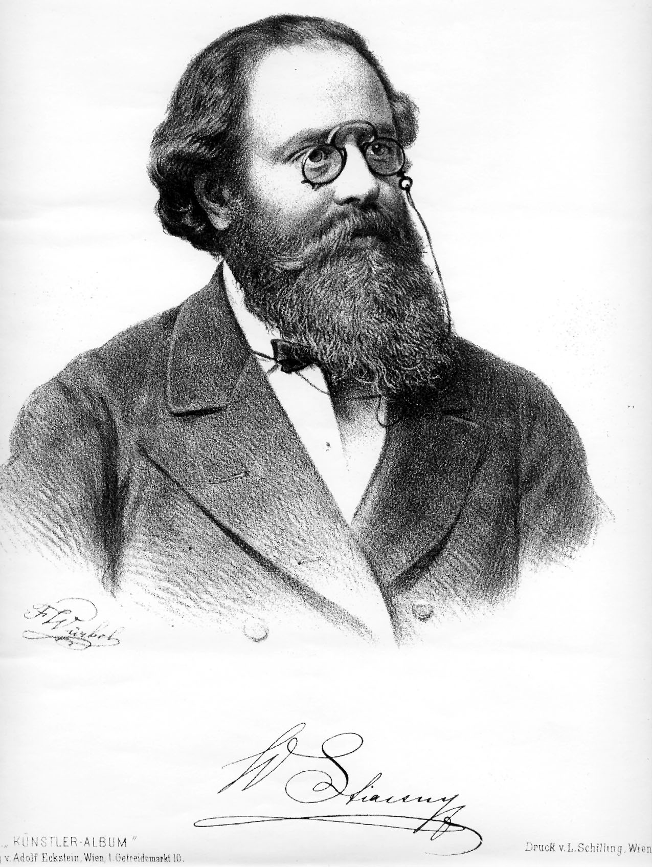 ECKSTEIN, ADOLF (Hrsg.), Künstler-Album,Wien, 1883